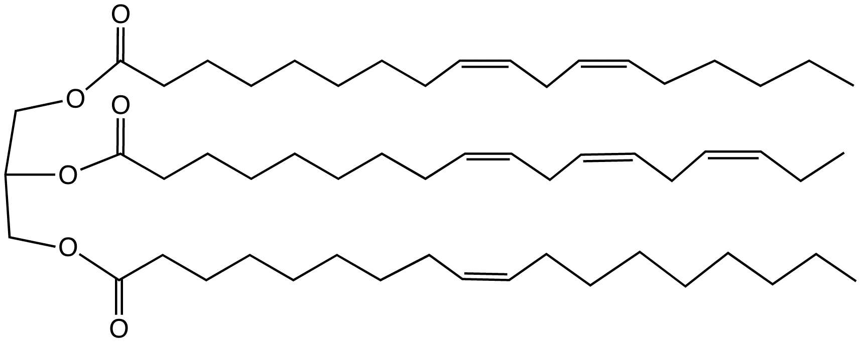 chemical structure of a drying oil